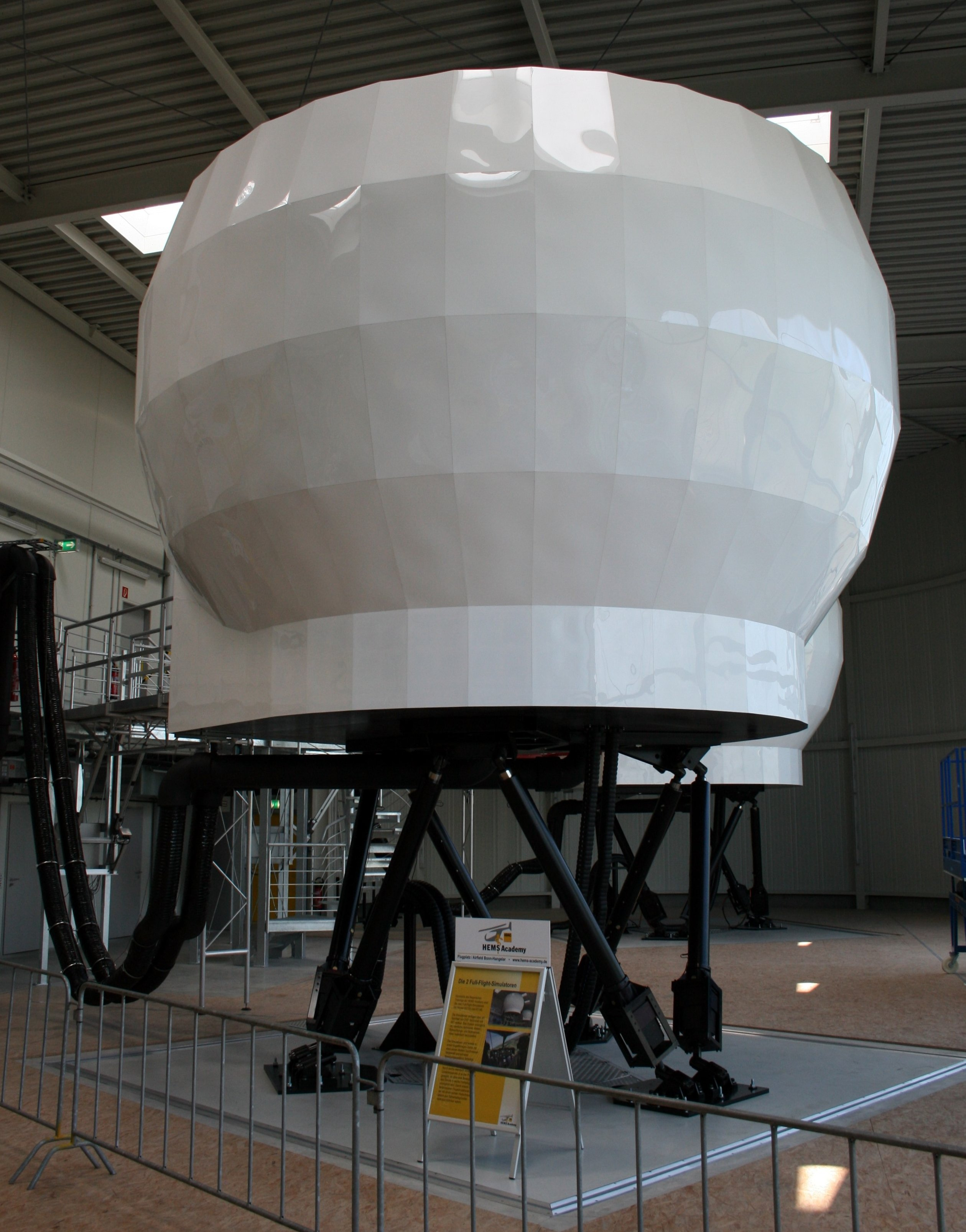 ADAC HEMS-Academy at German Airfield Bonn/Hangelar: two full-flight-simulator for Eurocopter EC 135 and EC 145